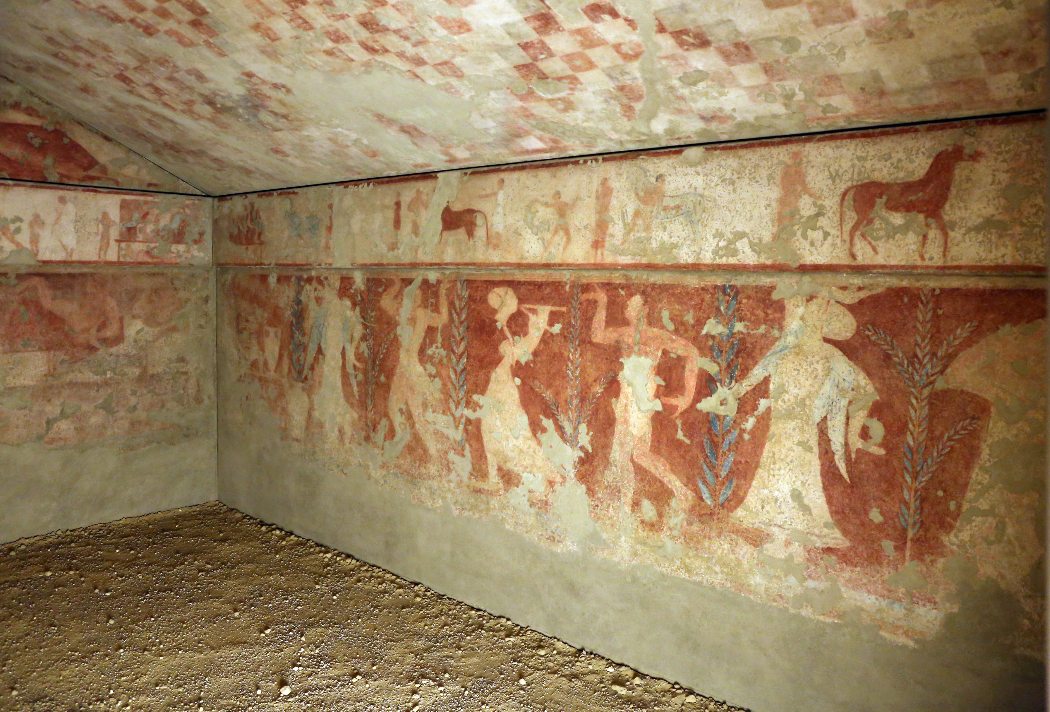 Etruscan antiquities the Museo archeologico nazionale (Tarquinia)